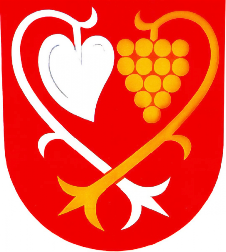 Emblem of municipality Pašovice (Czech Republik)